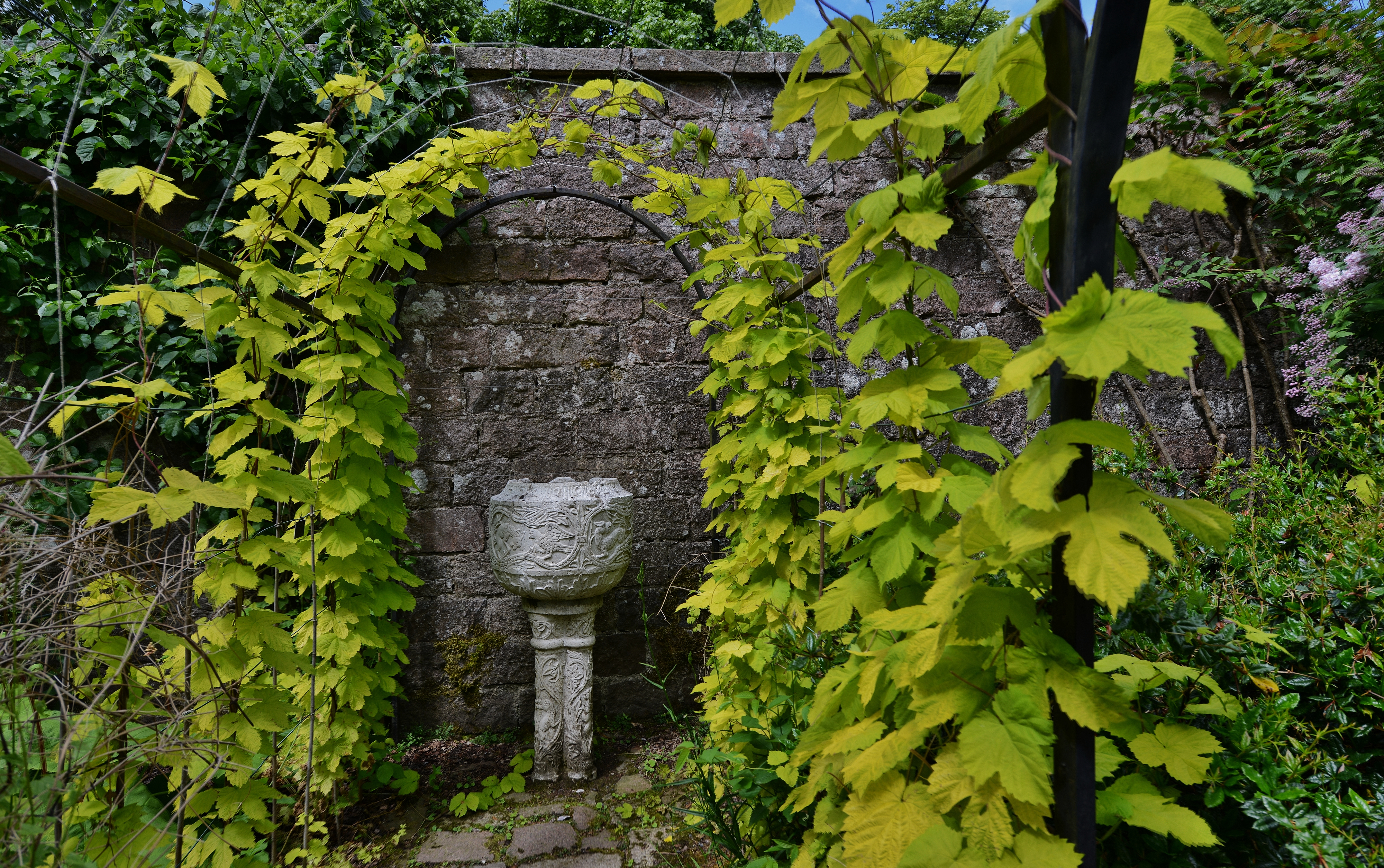 Photo by Michael Garlick